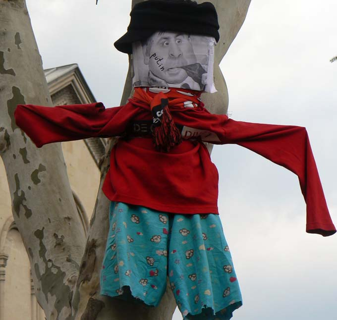 10 April 2009. Puppet with face of Mikheil Saakashvili during opposition protest in Tbilisi